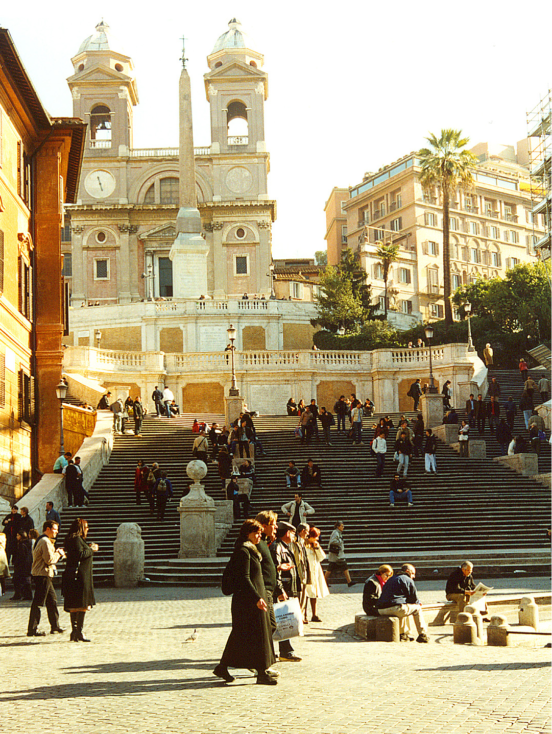 The Spanish Steps and the church of Trinita dei Monti seen from the Piazza di Spagna in Rome